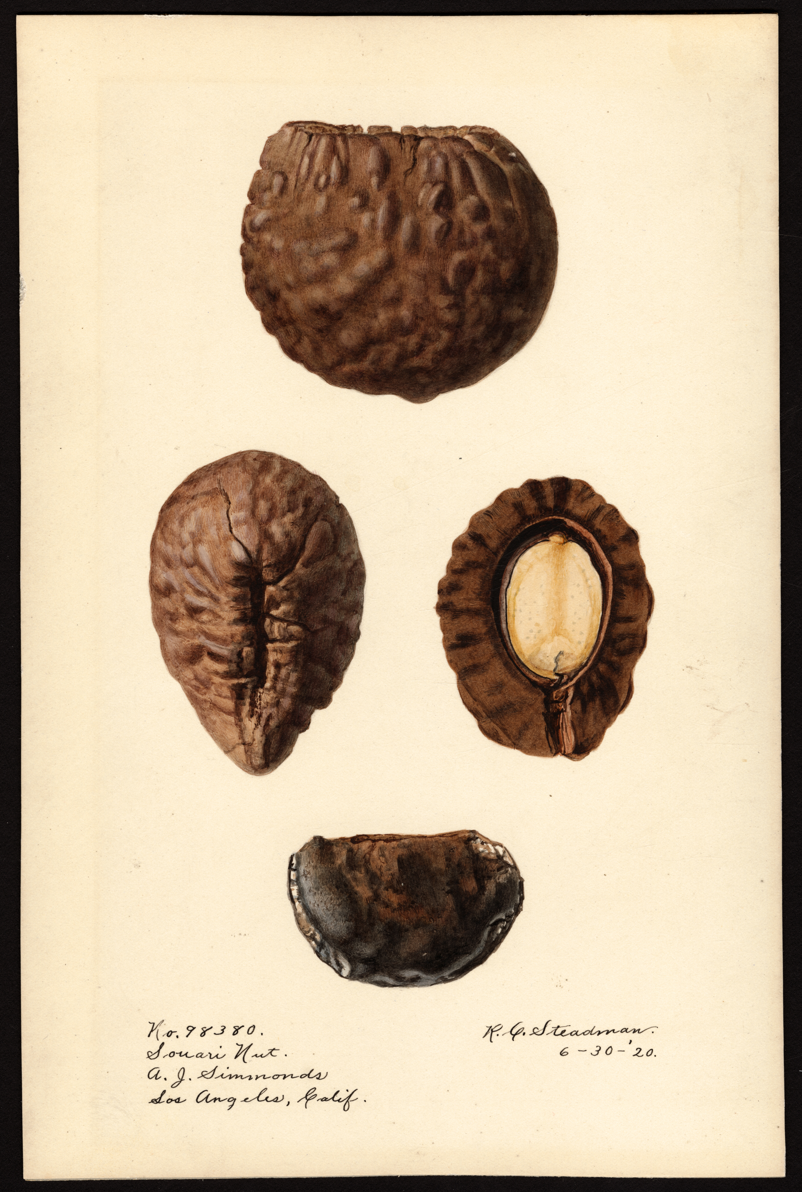 Image of the Souari Nut variety of pekea nut (scientific name: Caryocar nuciferum), with this specimen originating in Los Angeles, Los Angeles County, California, United States. Source: U.S. Department of Agriculture Pomological Watercolor Collection. Rare and Special Collections, National Agricultural Library, Beltsville, MD 20705.